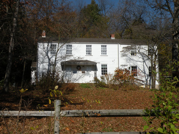 Picture of the Rachel Carson Homestead at 613 Marion Avenue in Springdale, Pennsylvania, on November 7, 2009. Author Rachel Carson's childhood home. Built circa 1870, the homestead is listed on the National Register of Historic Places.